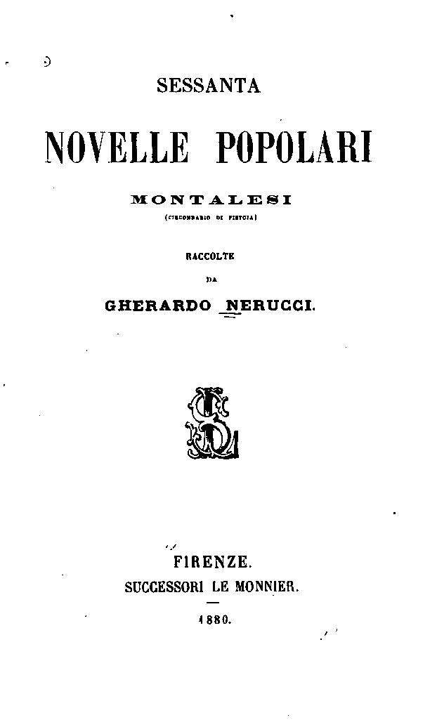 front page